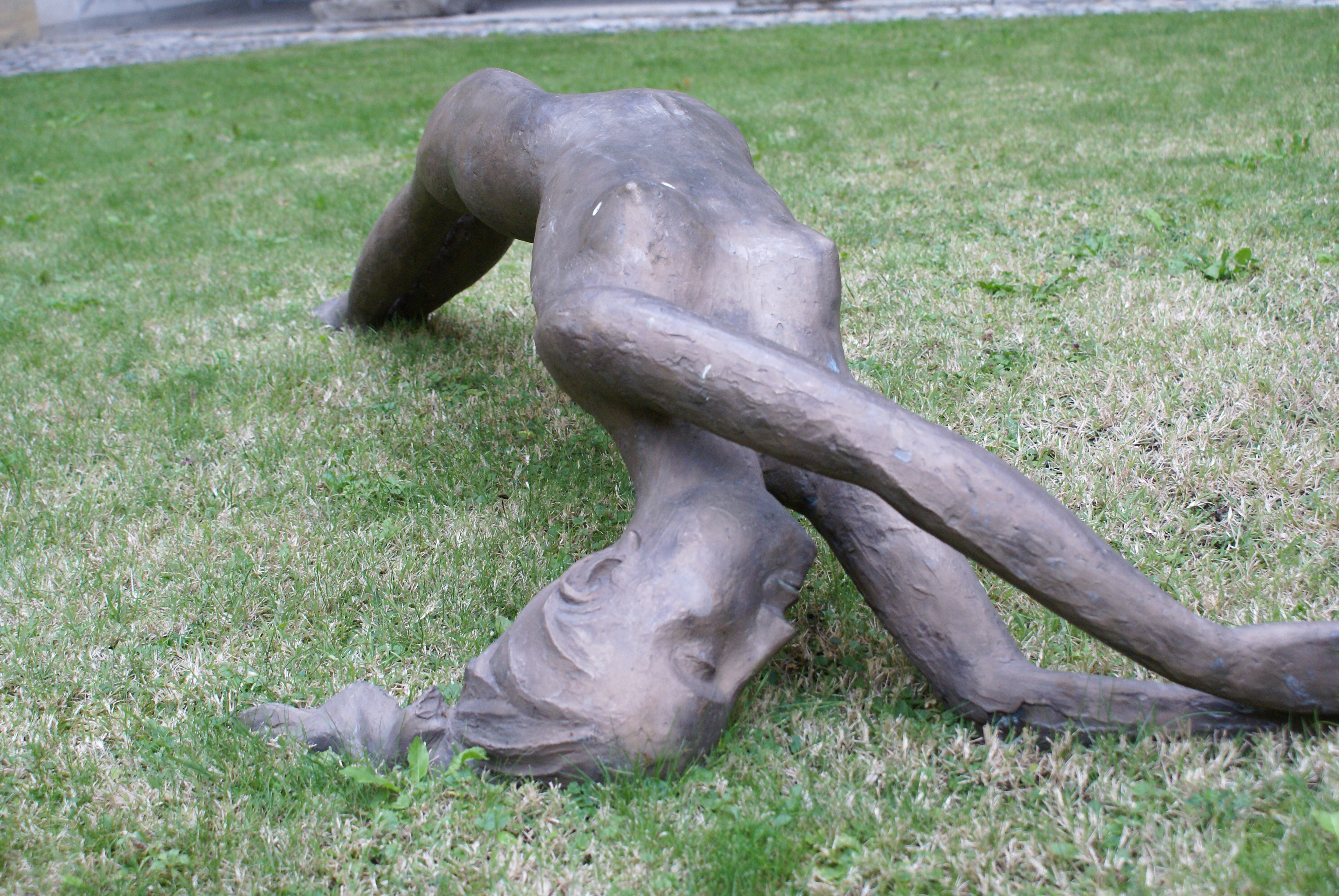 Sculpture by Franz Kehrer, born in Enneberg (Provincia di Bolzano, South Tyrol).